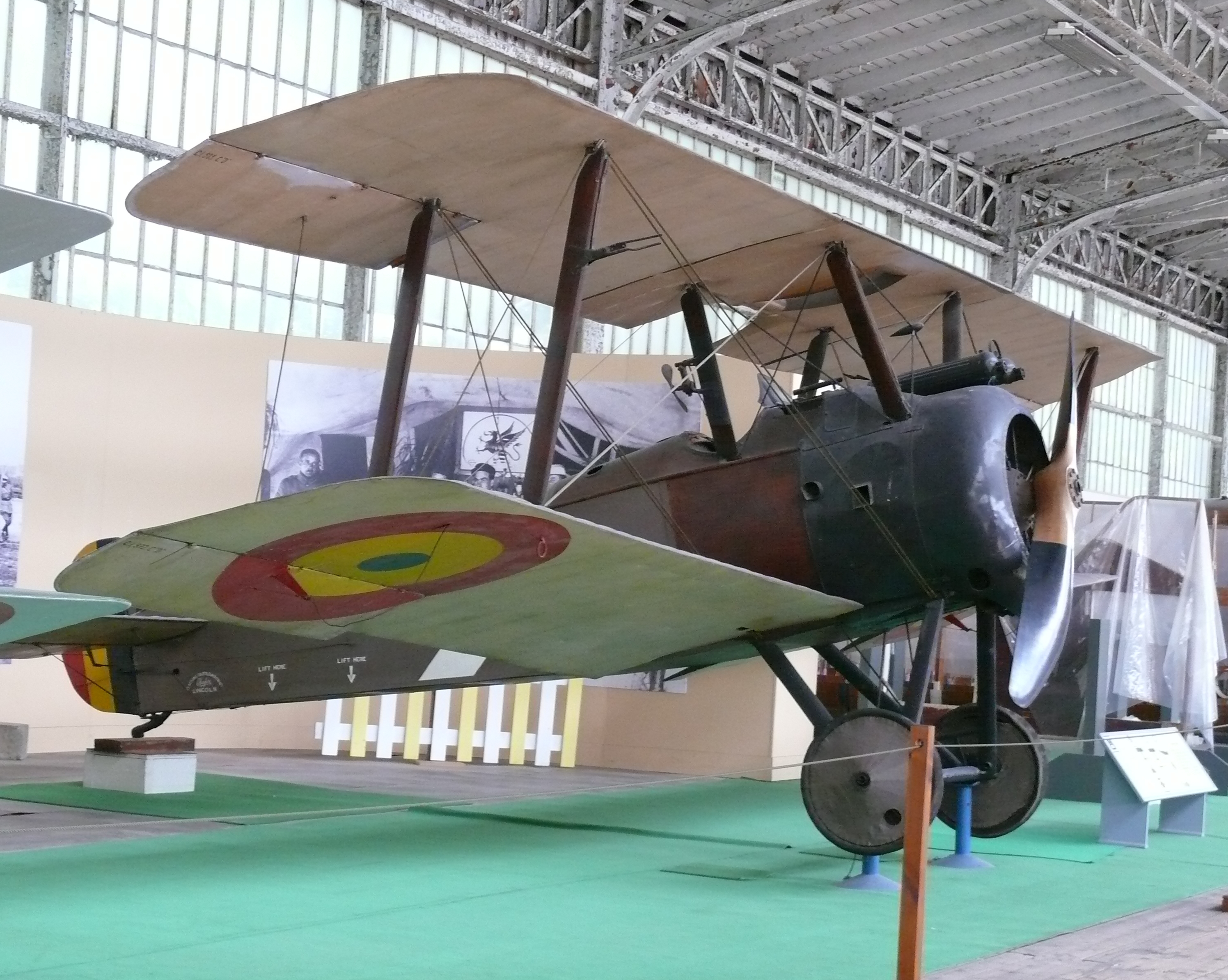 Sopwith Camel in the Royal Military Museum at the Jubelpark, Brussels. Airframe Family: Sopwith Camel Latest Model: Camel F.1 Last Military Serial: B5747 RAF Information retrieved from on 1 August 2011.